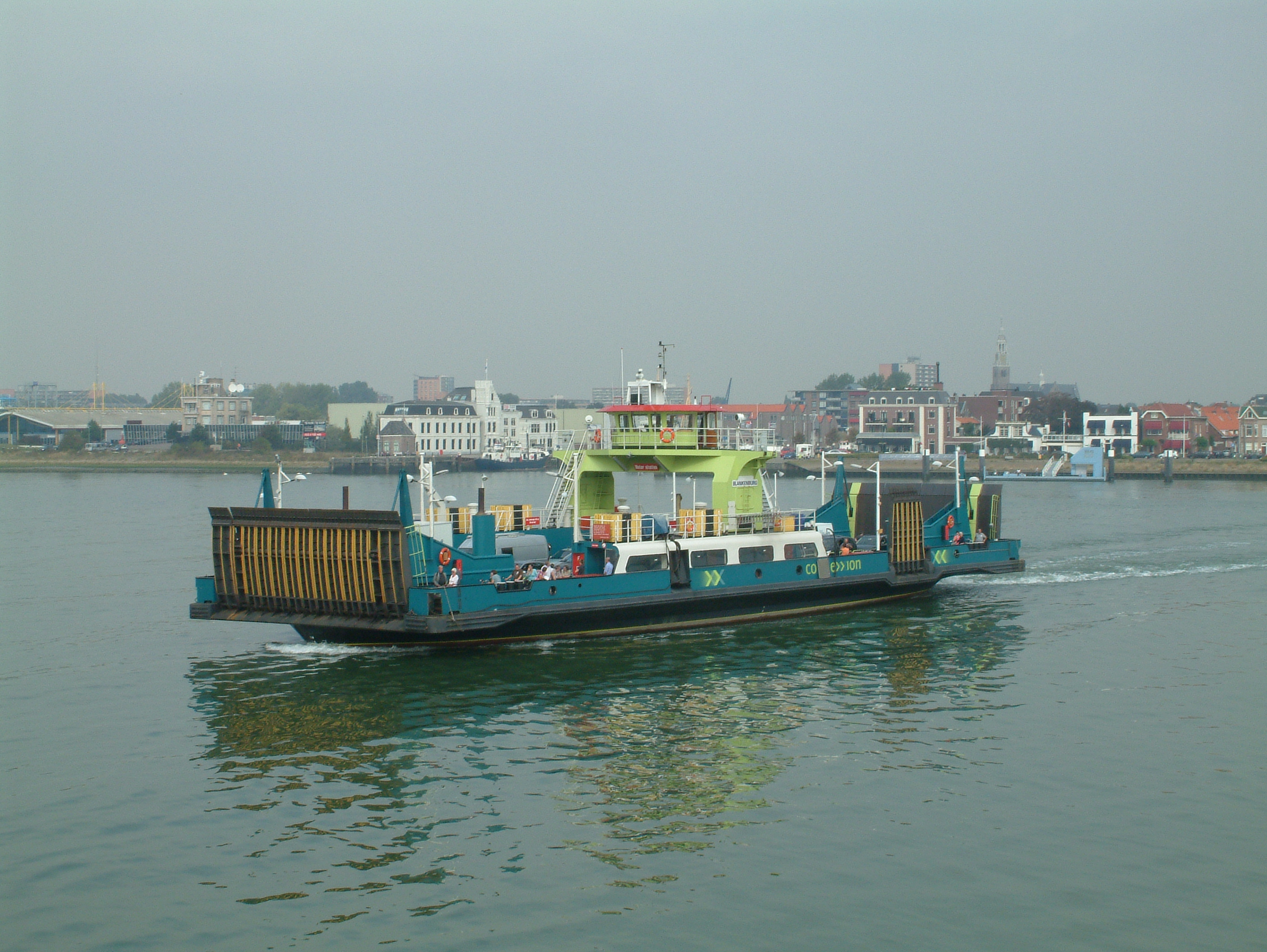 Ferry Blankenburg between Rozenburg and Maassluis